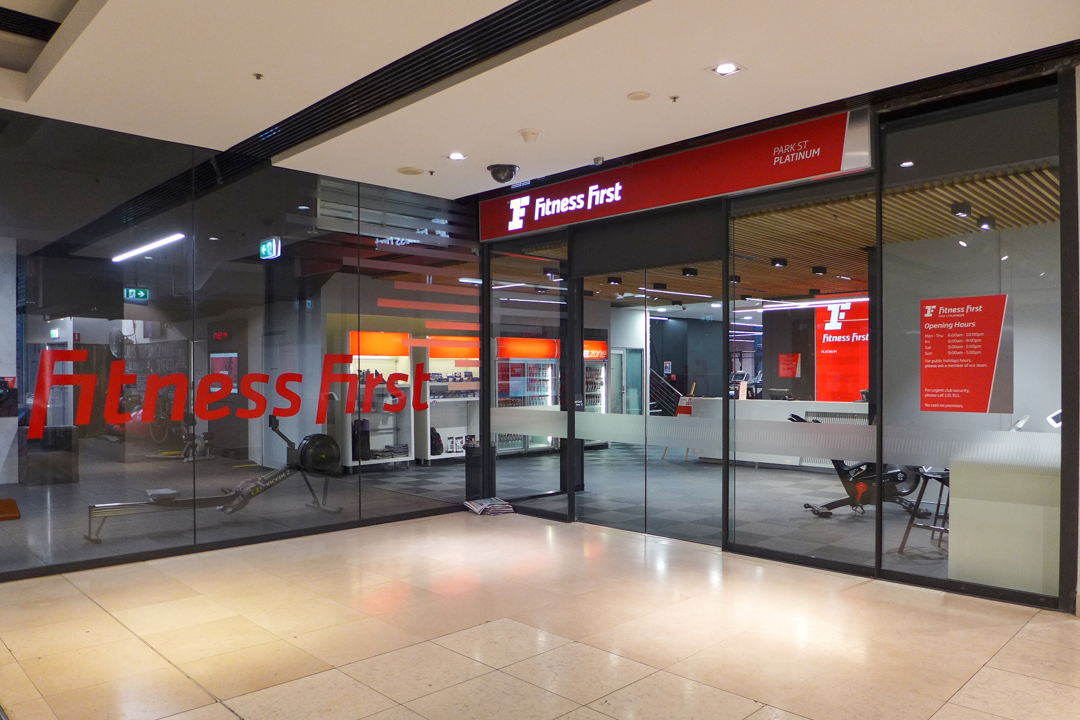 Fitness First branch in The Galeries